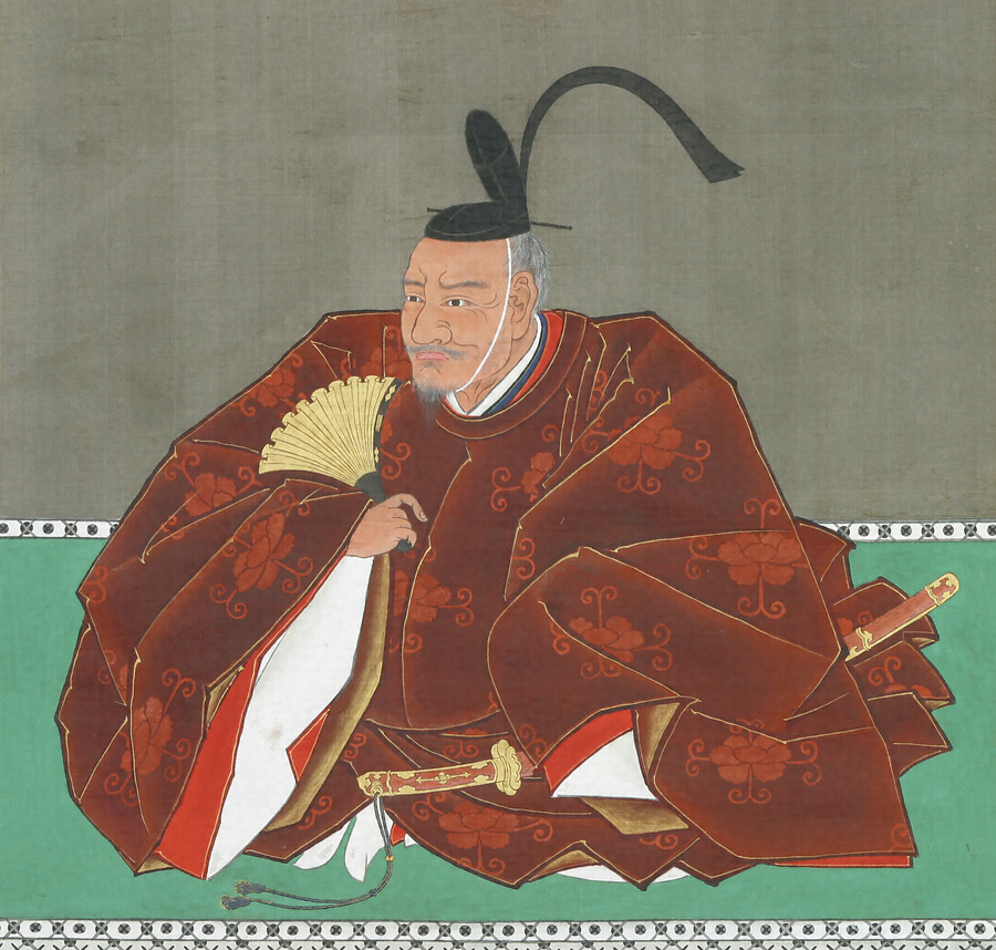 Portrait of Nabeshima Naoshige, by Miura Shisan, Chokokan, Saga, Saga, Japan (detail)